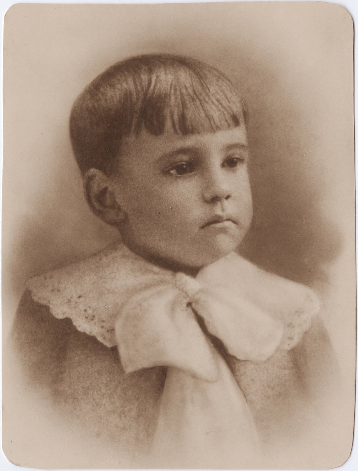 Studio black-and-white portrait of playwright Eugene O'Neill as a child. O'Neill dressed in collar with bow. Courtesy of the Beinecke Rare Book & Manuscript Library.[1]